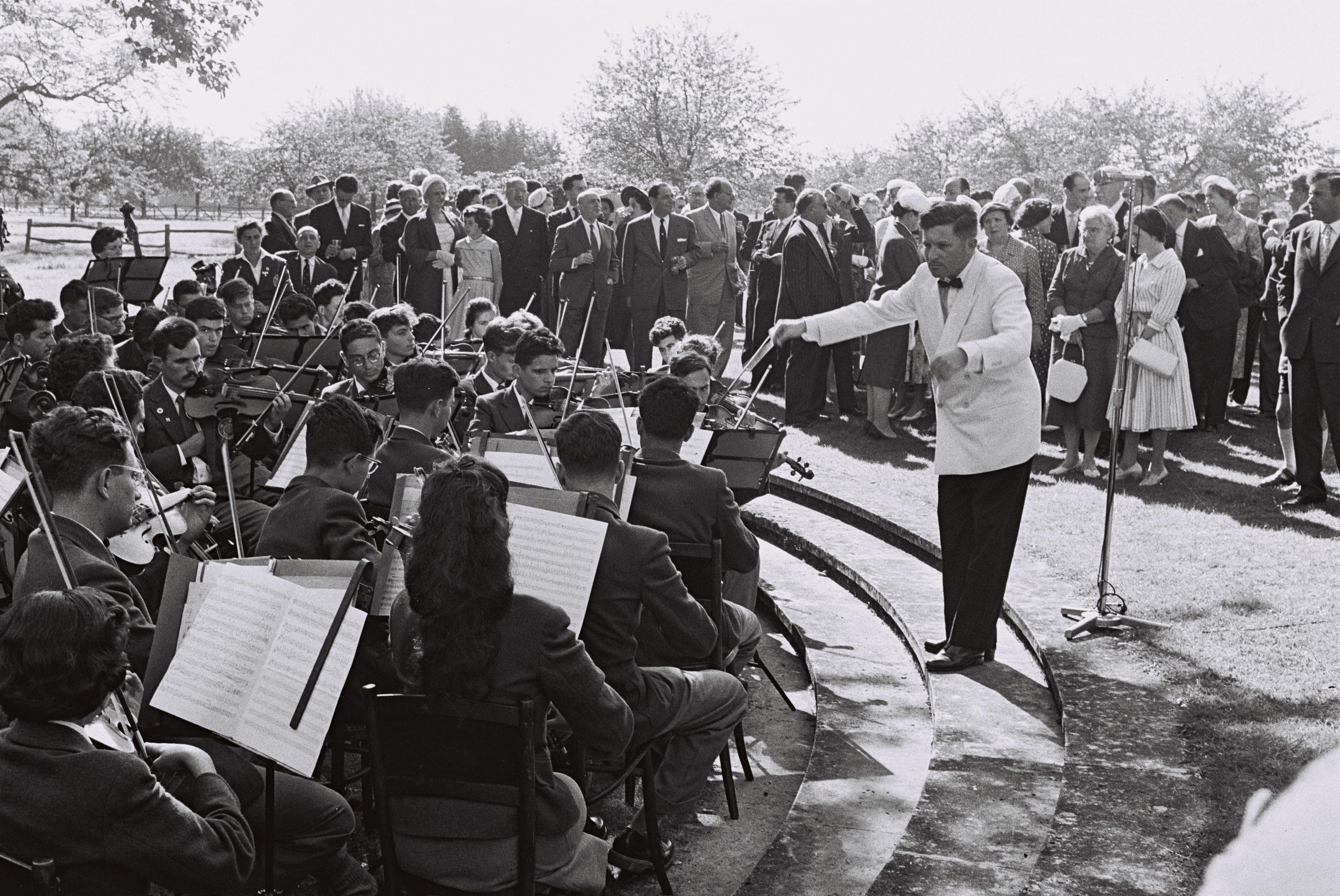 HE GADNA ORCHESTRA CONDUCTED BY SHALOM RIKLIS AT A GARDEN PARTY IN ARGENTEUIL. D676-101. 008112